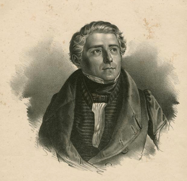 Depicted person: Carl Loewe